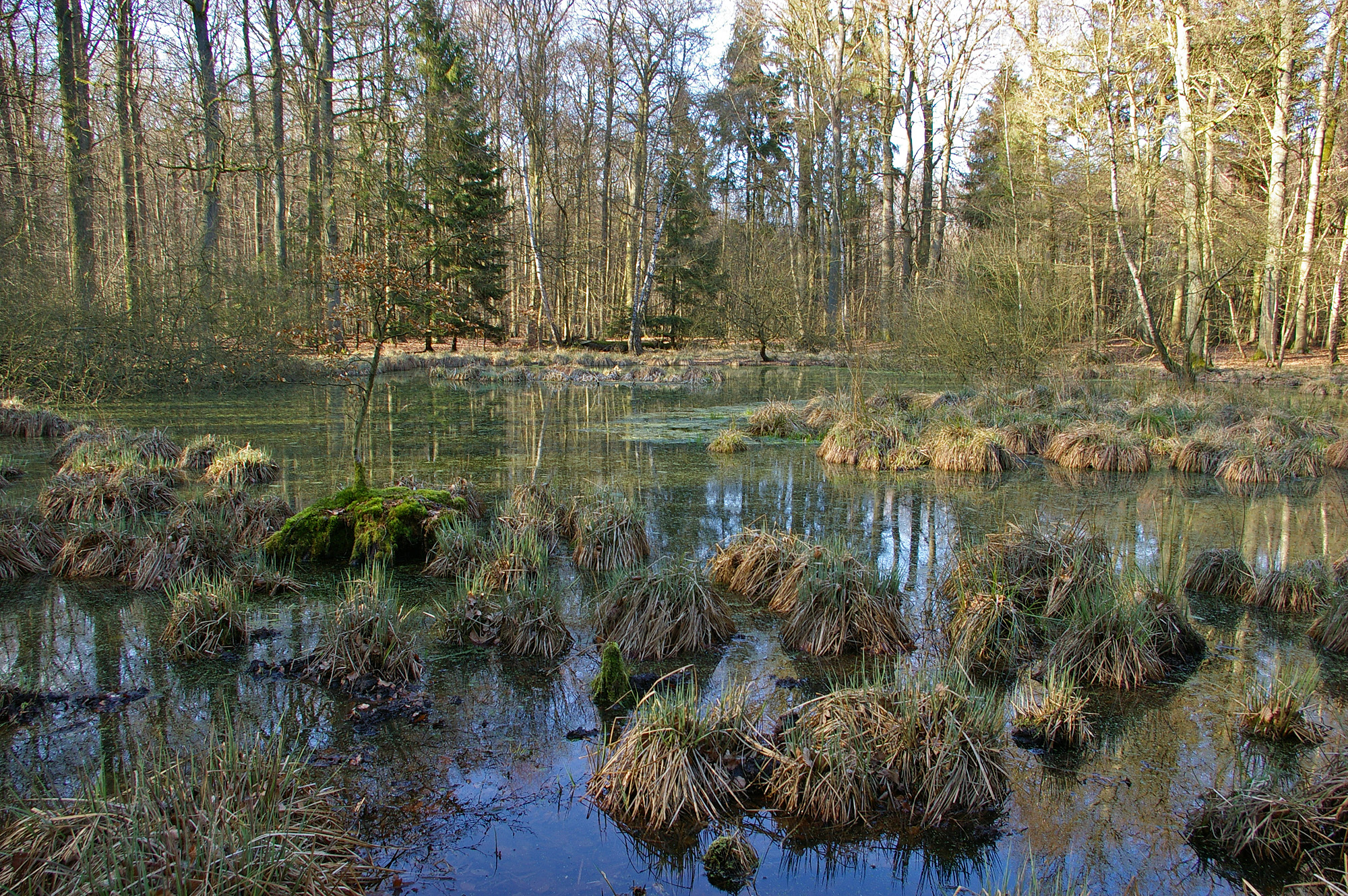 Nature reserve "Lohn" with pool. District Uelzen, north-eastern Lower Saxony, Germany.